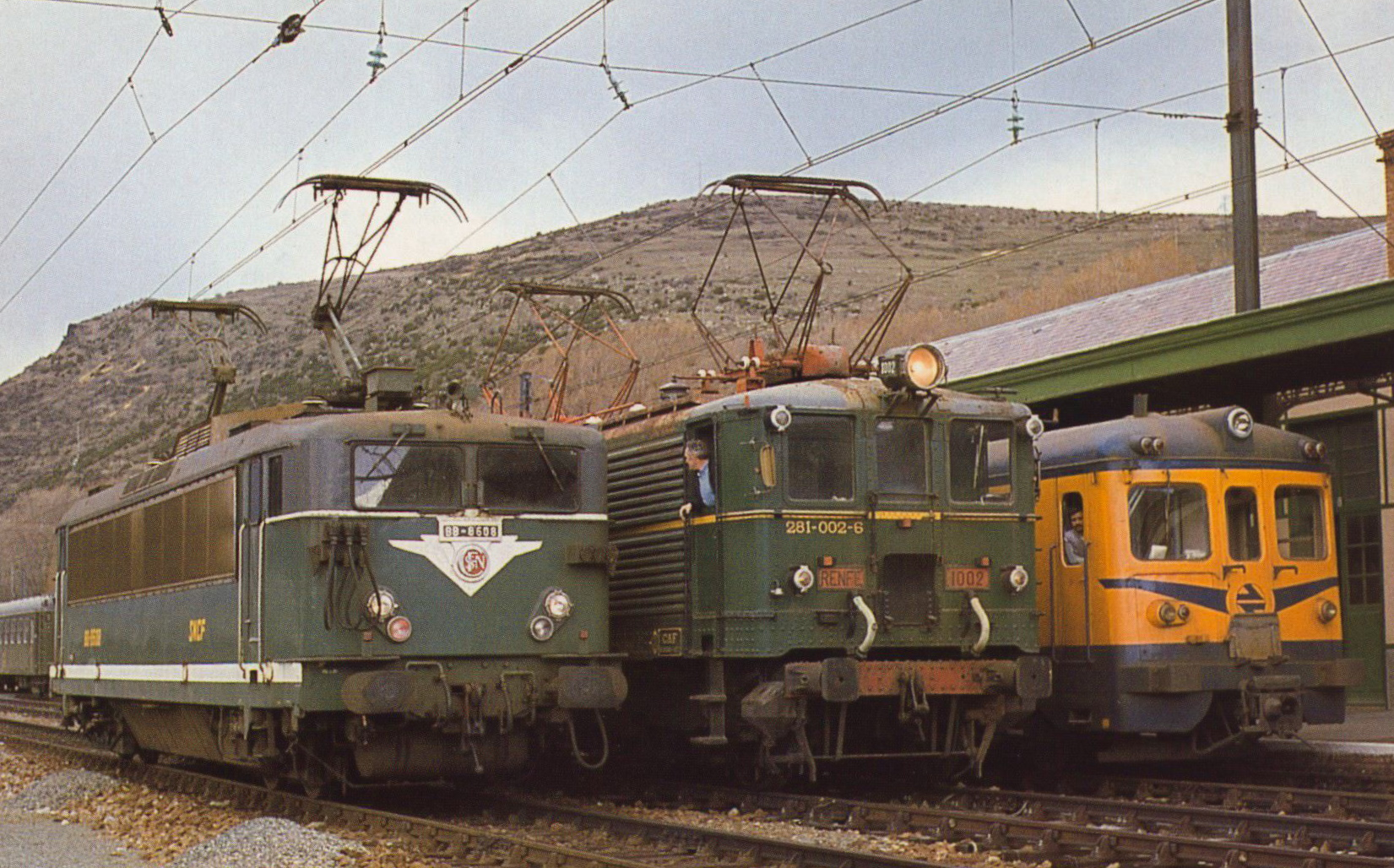 SNCF BB 8608, RENFE 281 002-6 and a Unit